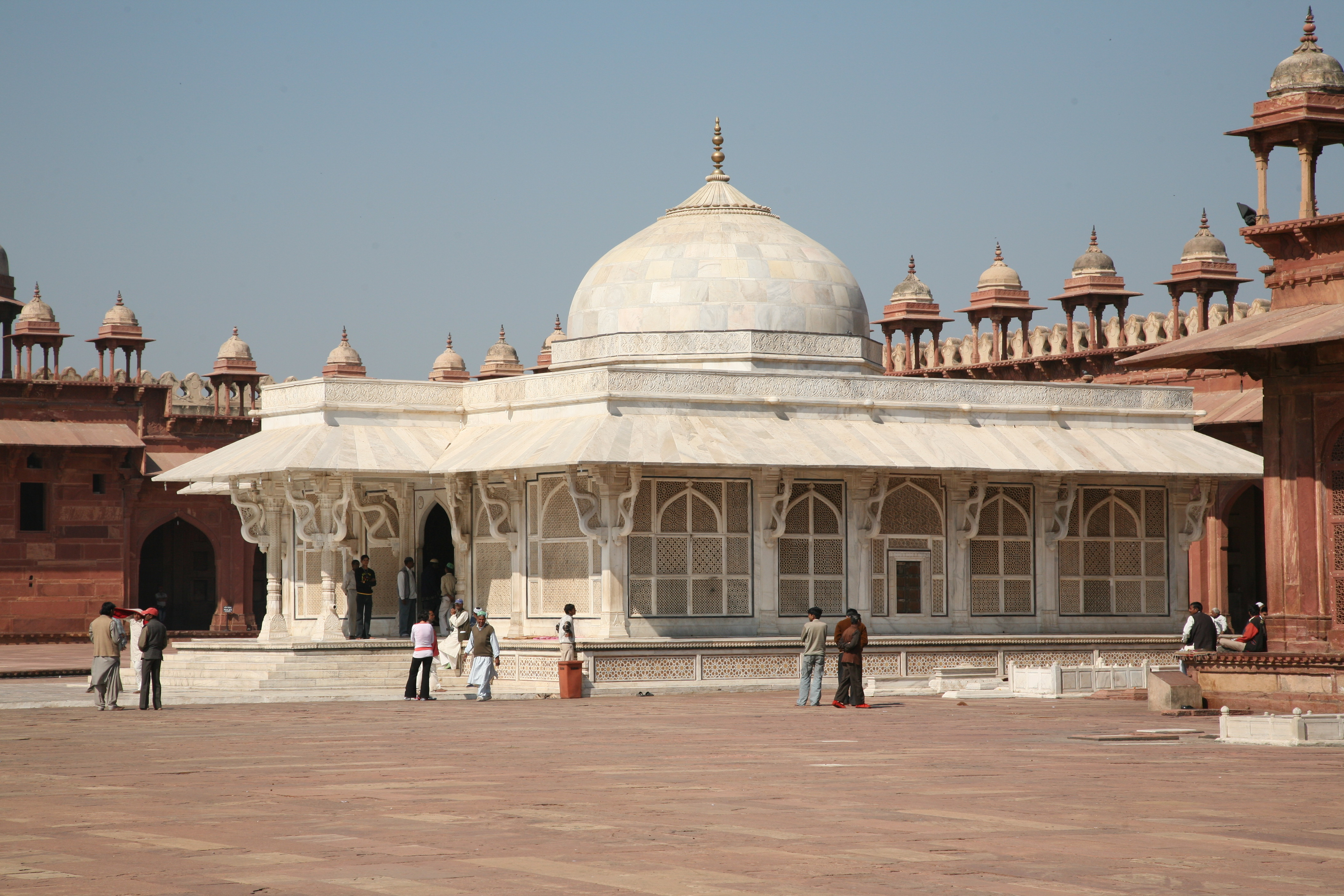 Salim Chishti Tomb within the Jami Masjid at Fatehpur Sikri.